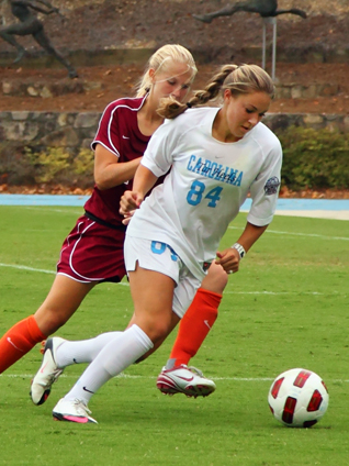 Courtney Jones (daughter of former 49ers football player Brent Jones) playing for UNC Women's Soccer team against Virginia Tech on UNC's Fetzer Field